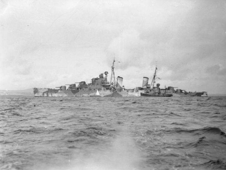 The Royal Navy during the Second World War HMS Naiad, British Dido class cruiser, camouflaged and at anchor in the Firth of Forth. A drifter and a sailing boat are alongside.